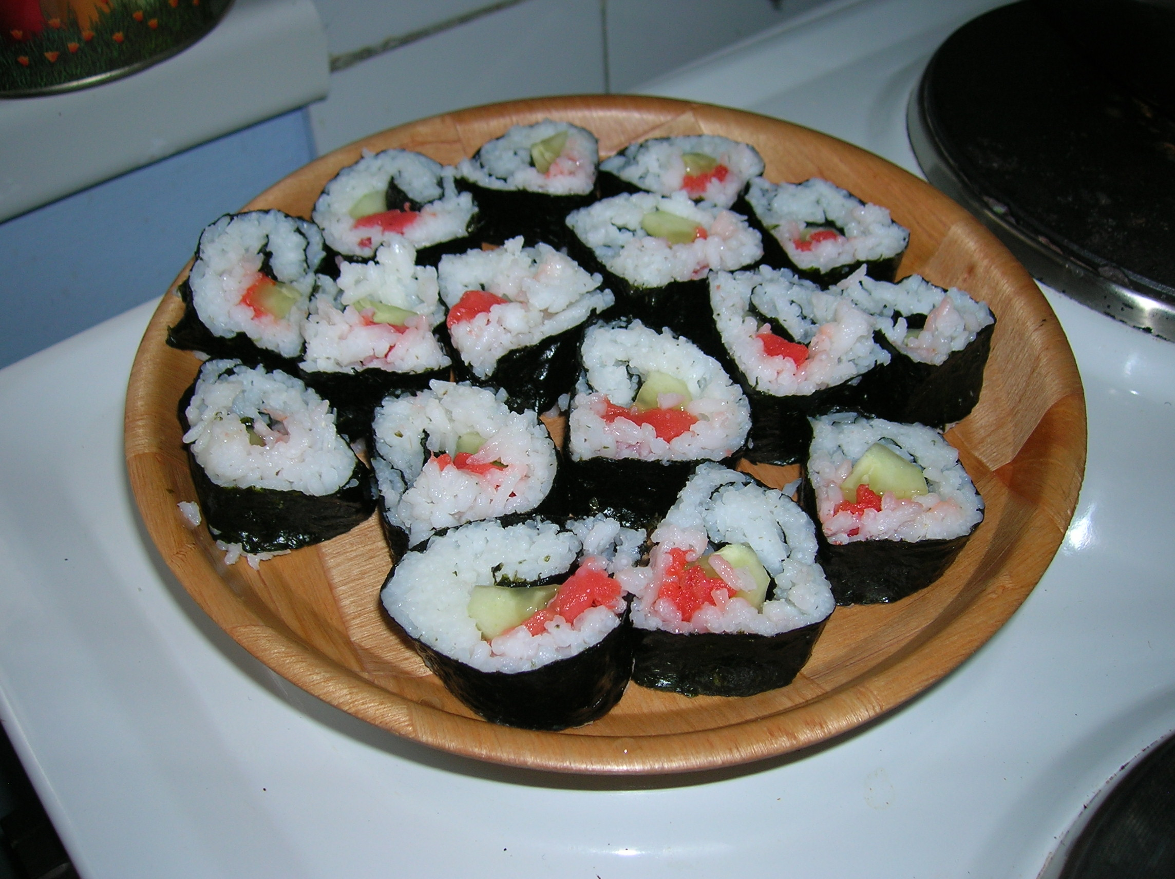 Somewhat deformed sushi made by an absolute beginner. Maki sushi with salmon and cucumber. :)